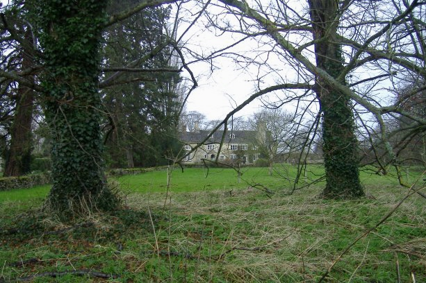 Foxley Manor farm Situated at the west end of Foxley hamlet.